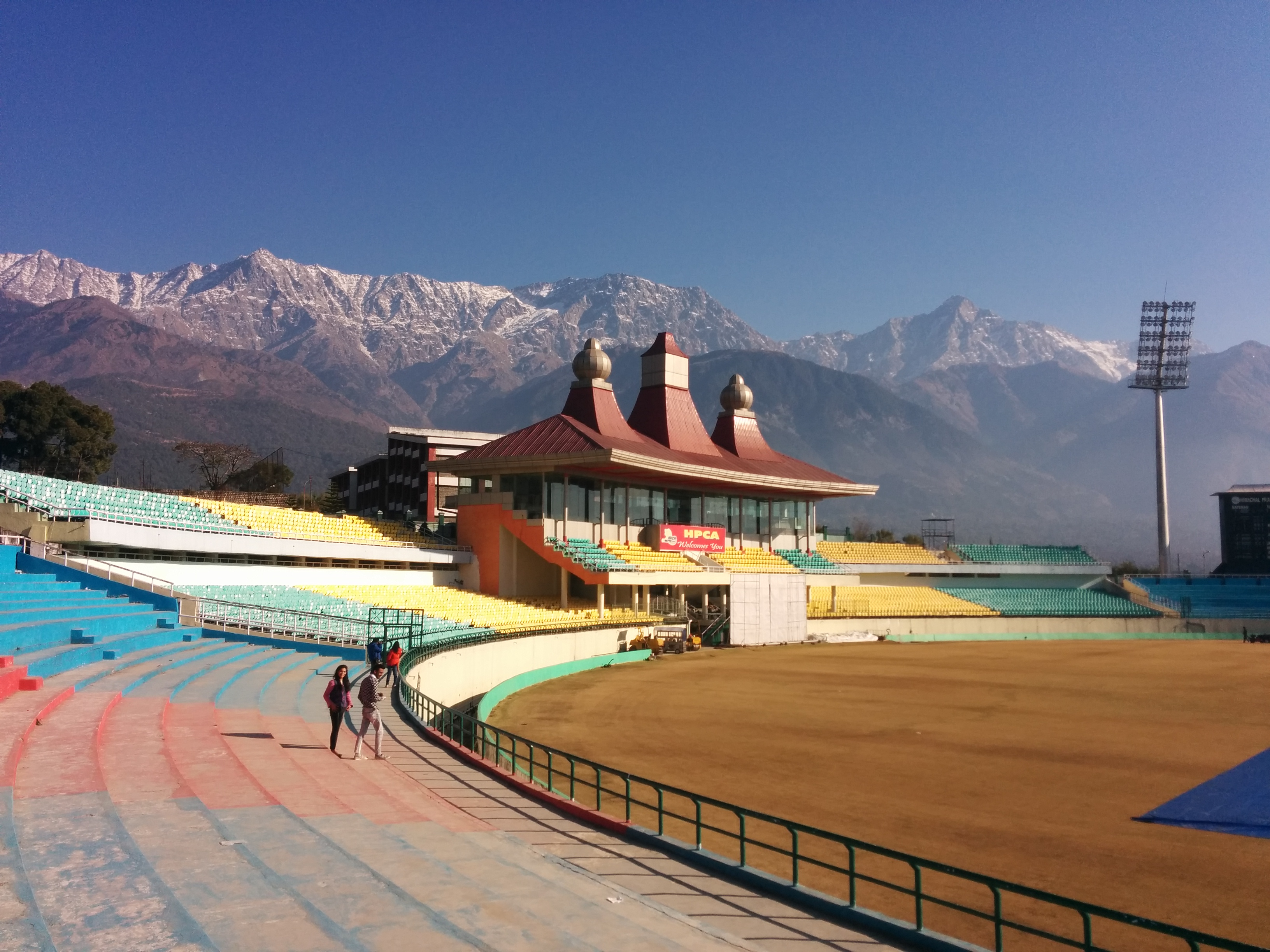 A view of the Dhauladhar Mountain Range from the Dharmashala Cricket Stadium in Himachal Pradesh